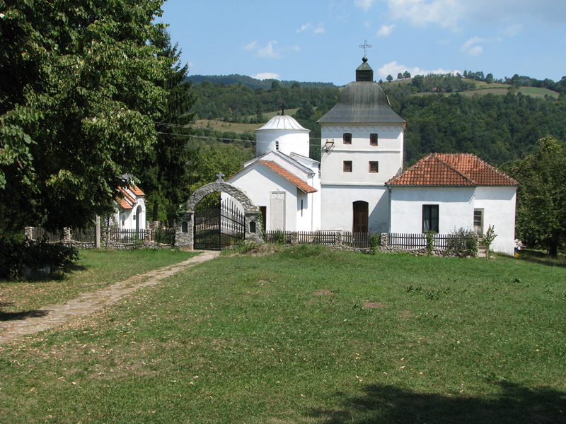 White Church in Karan, near Užice